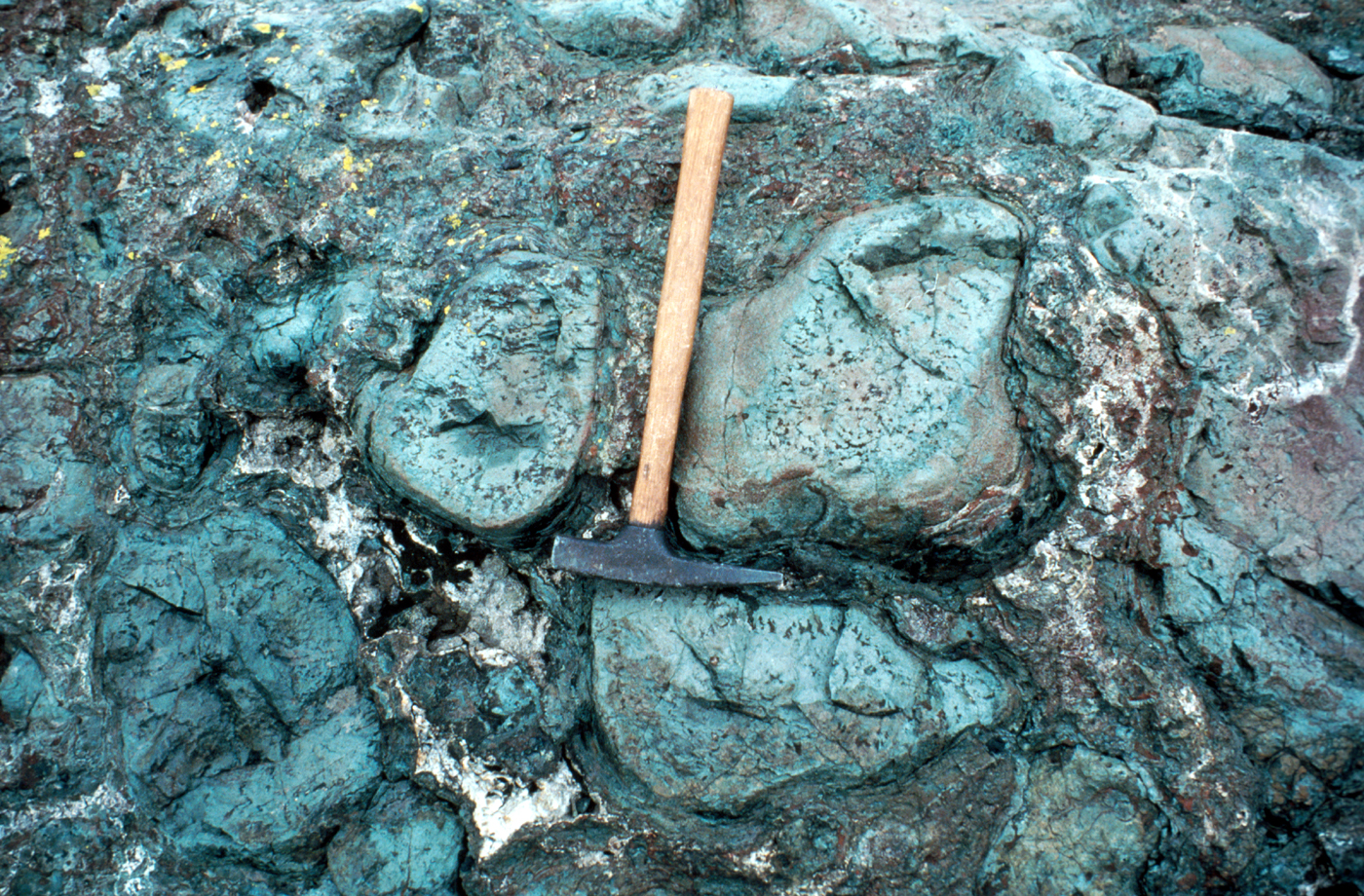 Glacier National Park, Montana. Matrix (hyaloclastite) supported pillows at Fifty Mountain.